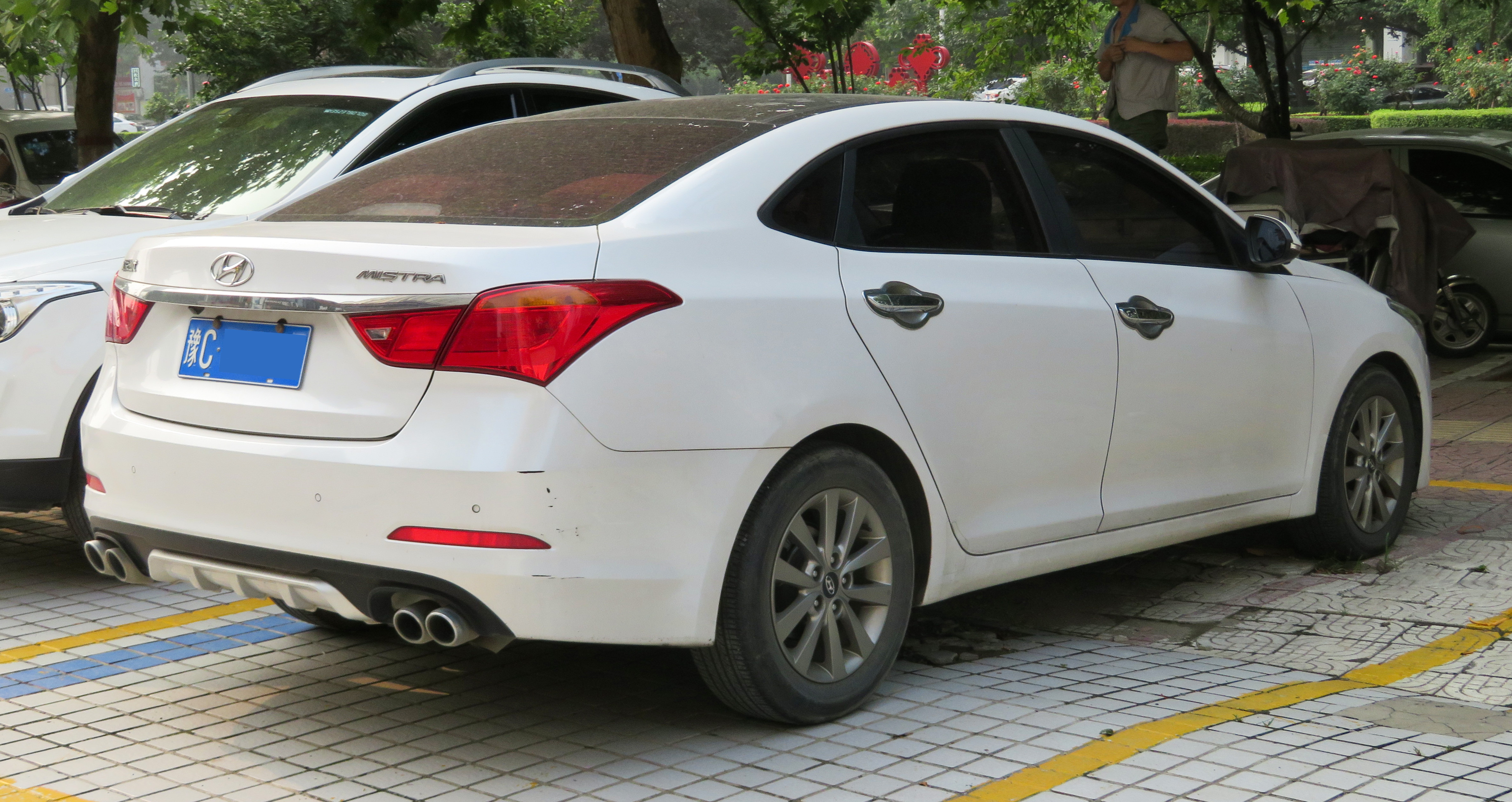 A 2016 Beijing-Hyundai Mistra photographed in Luolong District, Luoyang, Henan province, China